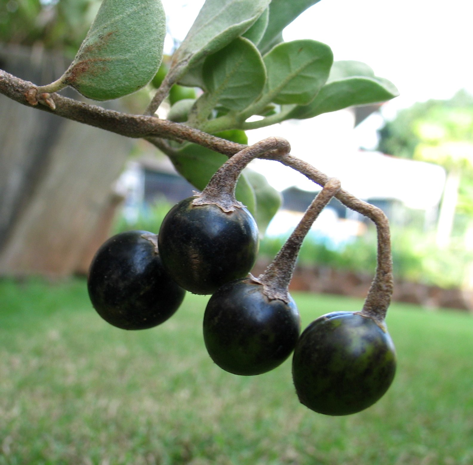 Pōpolo or Nelson's horsenettle Solanaceae Endemic to the Hawaiian Islands Midway Island form Oʻahu (Cultivated) NPH00001